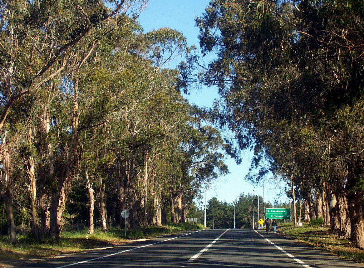 Road from Algarrobo(Chile) to El Totoral